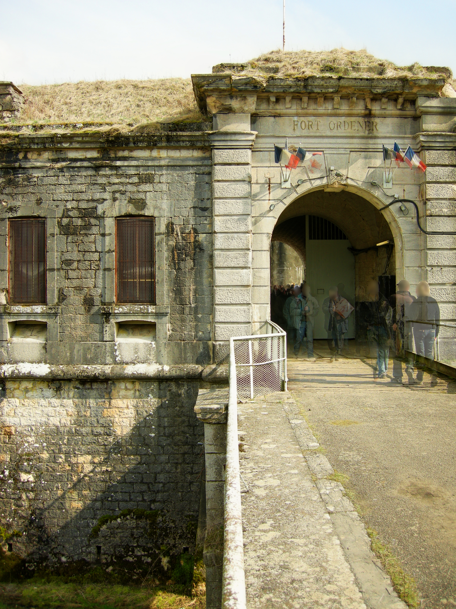 Vézelois fortification (HDR) : main entry.